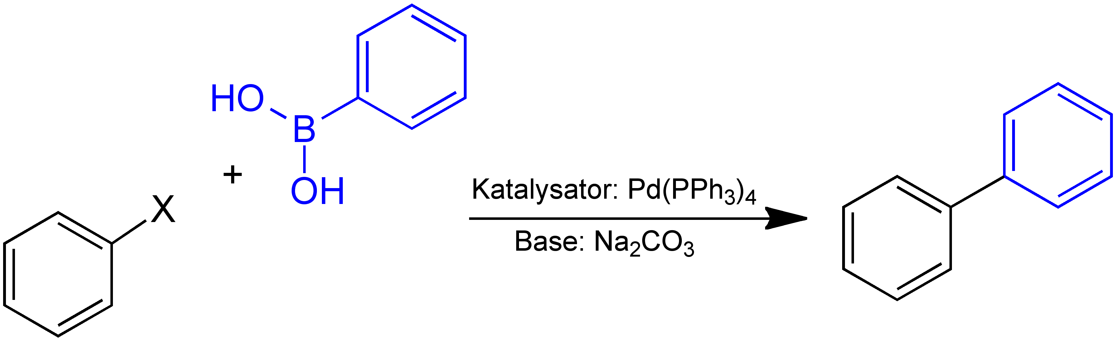 Suzuki_Reaction